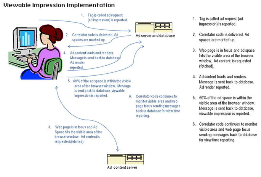 Viewable Impression Implementation Figure